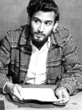 Pauline Henriques and Samuel Selvon reading a story during the weekly Caribbean Voices programme in 1952. (BBC Caribbean Service) (Ever so sorry, Both Henriques's and Selvon's surnames are misspelled in the file name! I would change them in a heartbeat, but don't know how. Could some admin do it for me? Thanks!)